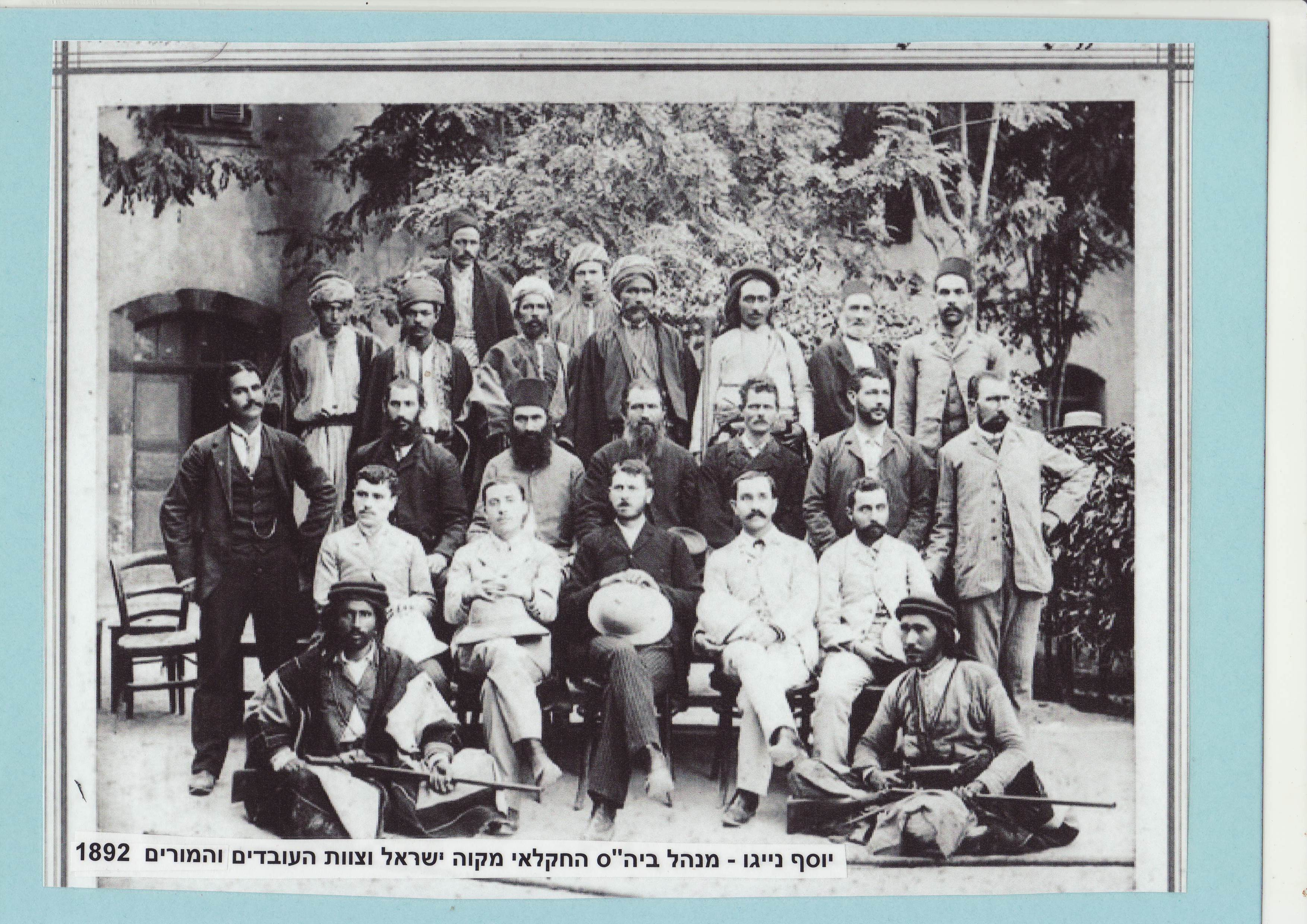 JOSEF NIEGO IN MIKVE ISRAEL 1892